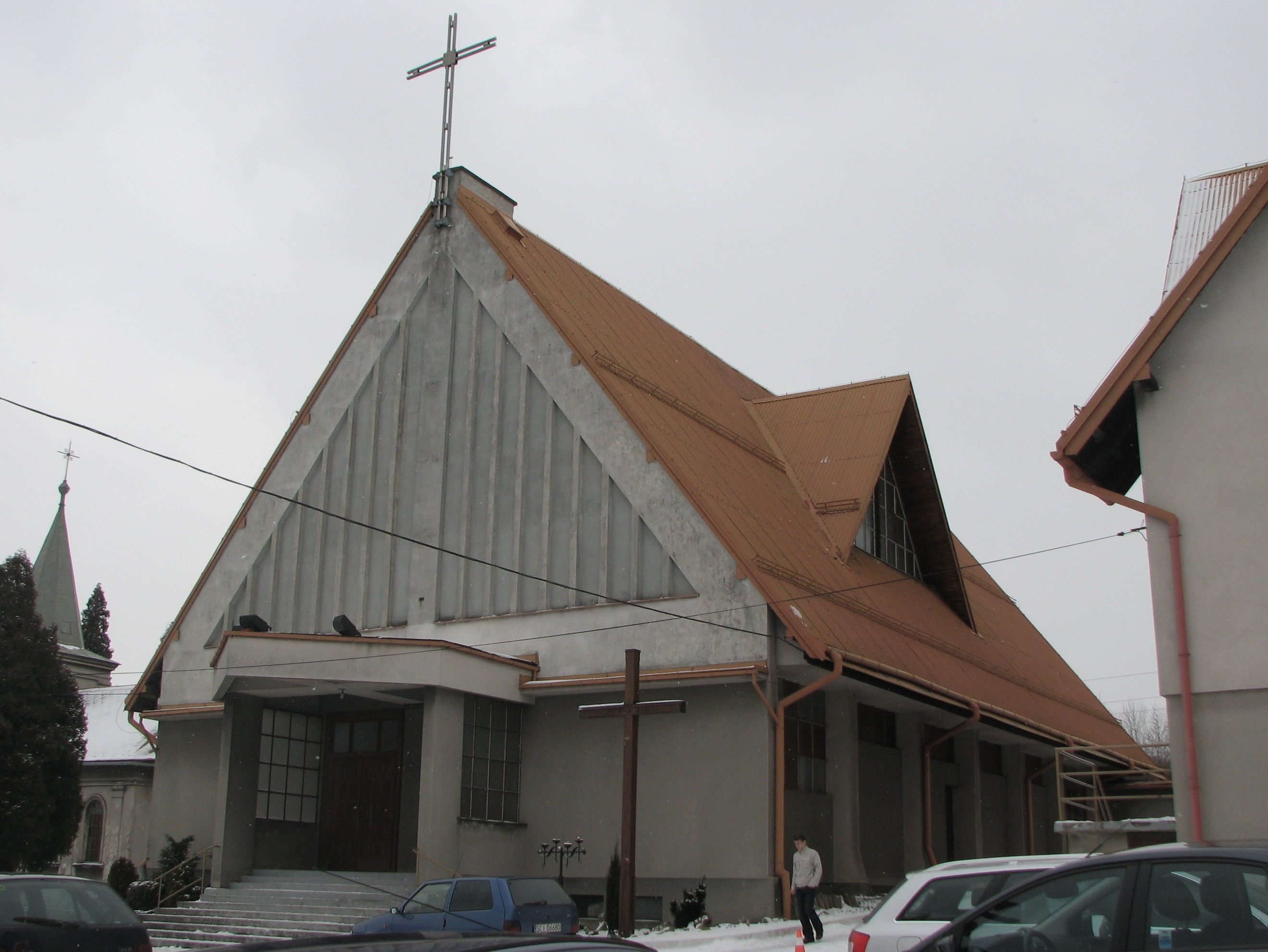 Church of St. John the Baptist's Birth in Mnisztwo (district of Cieszyn)